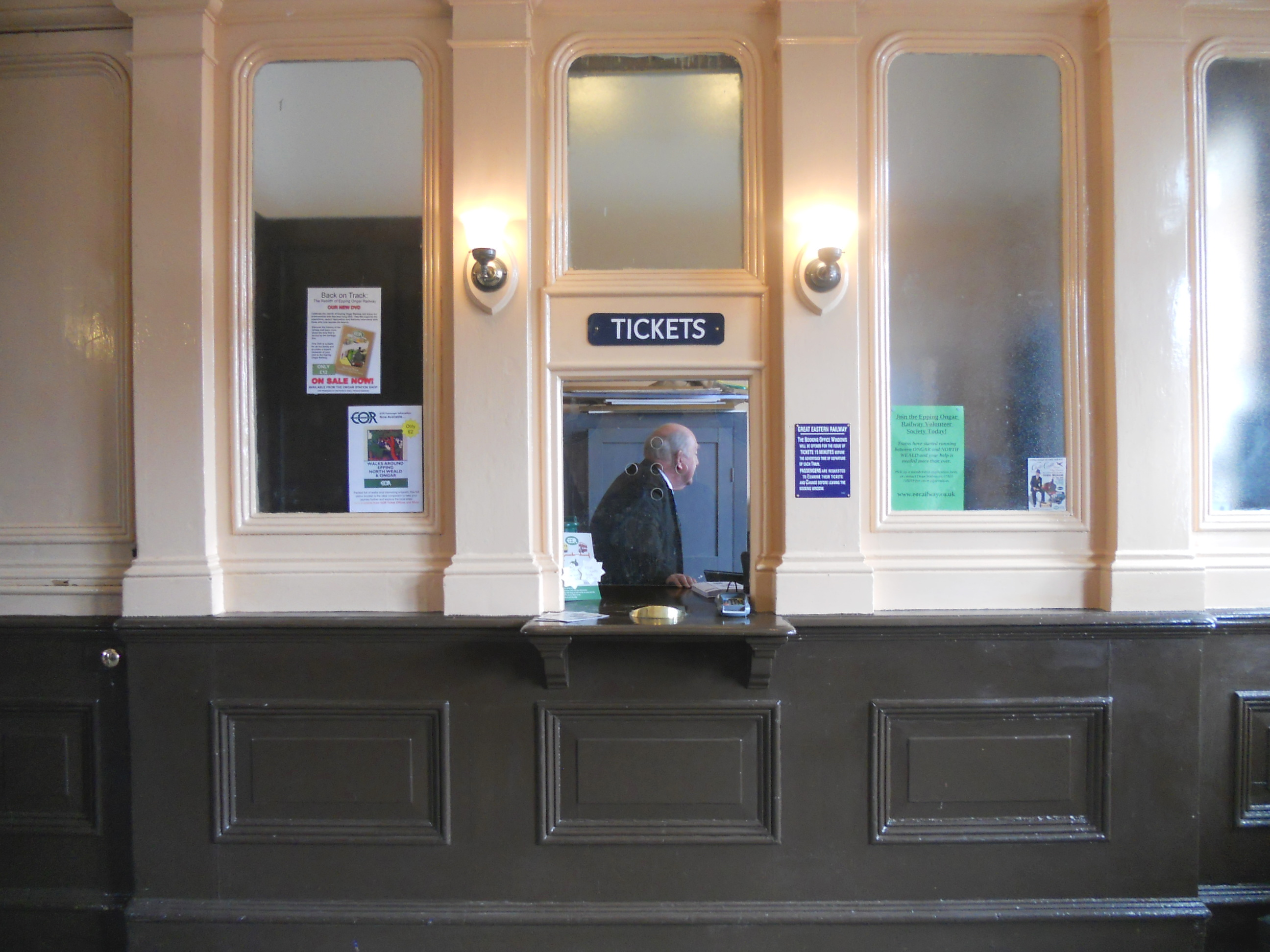 The interior of the booking office at Ongar Station on the Epping Ongar Railway